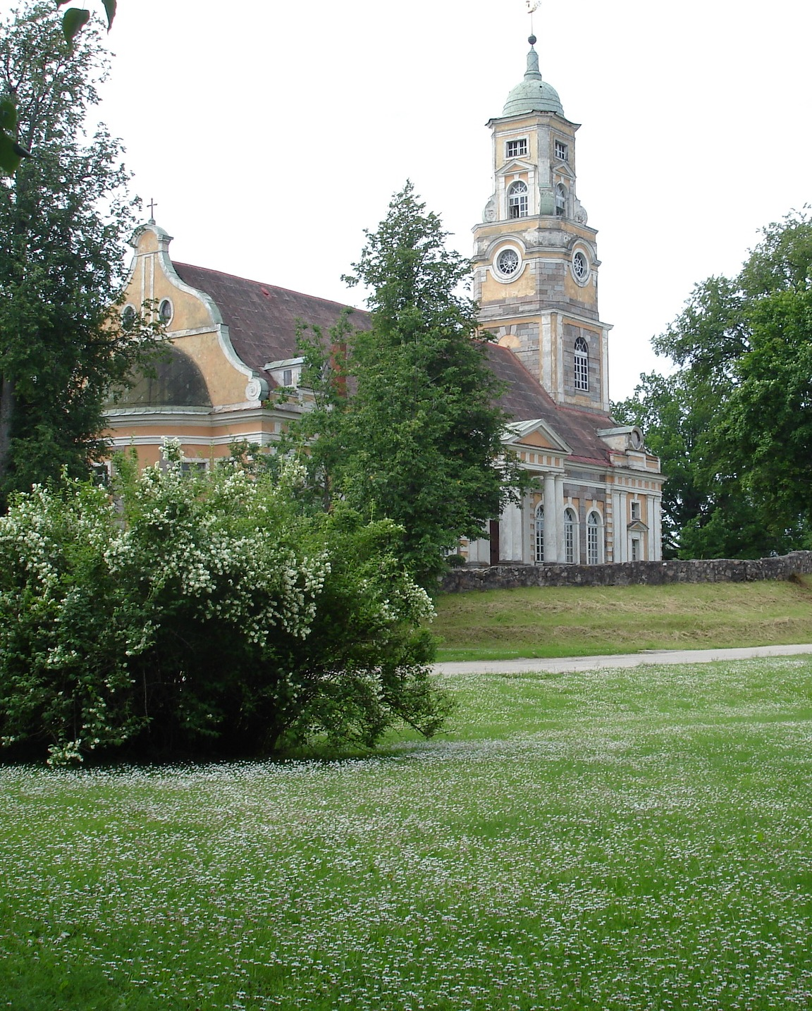 Aluksne church